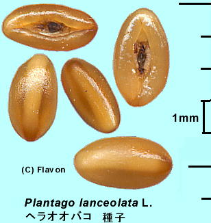 An image of seeds of Plantago lanceolata L. ヘラオオバコの種子画像。